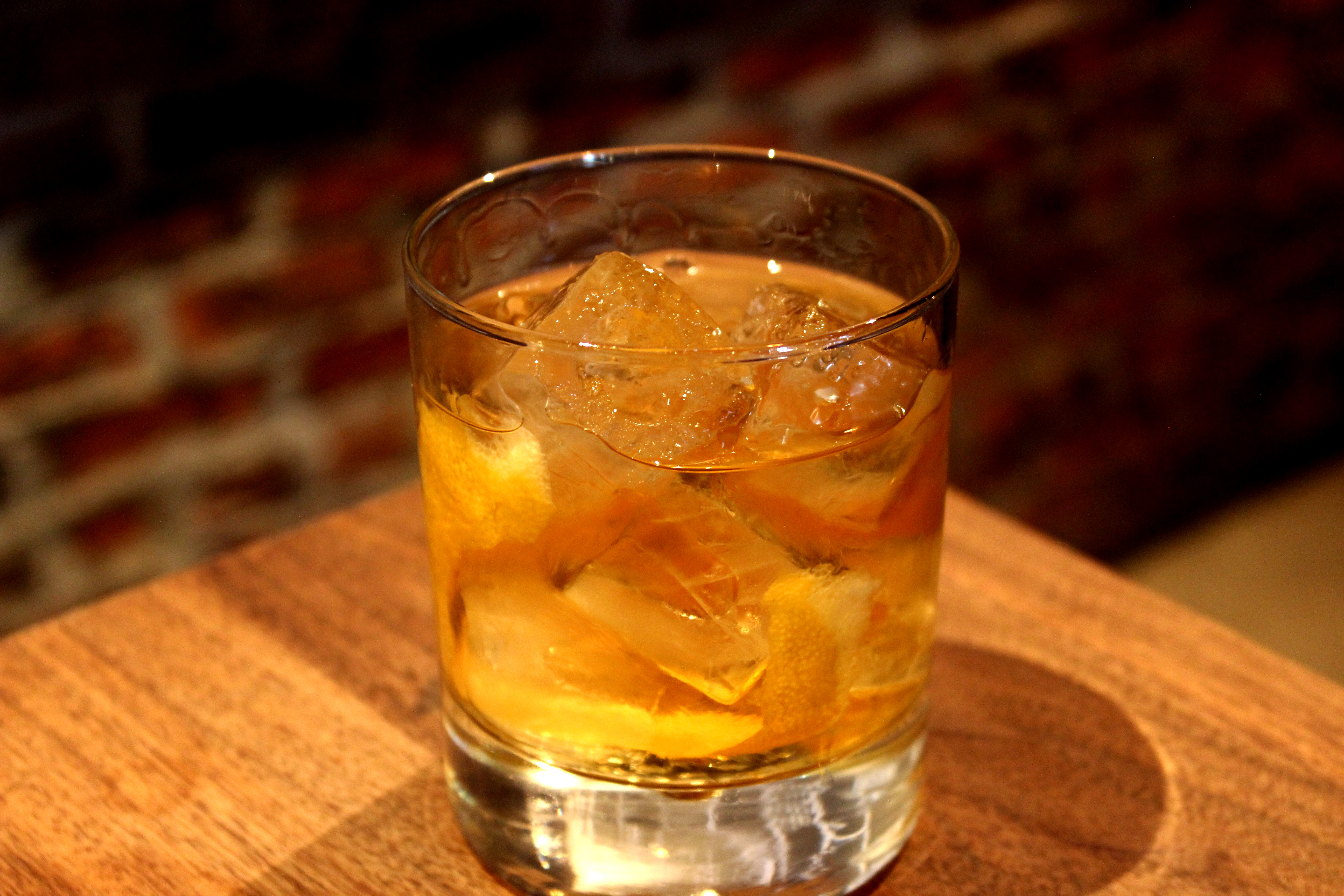 A Stinger cocktail served at Rye in San Francisco, California.